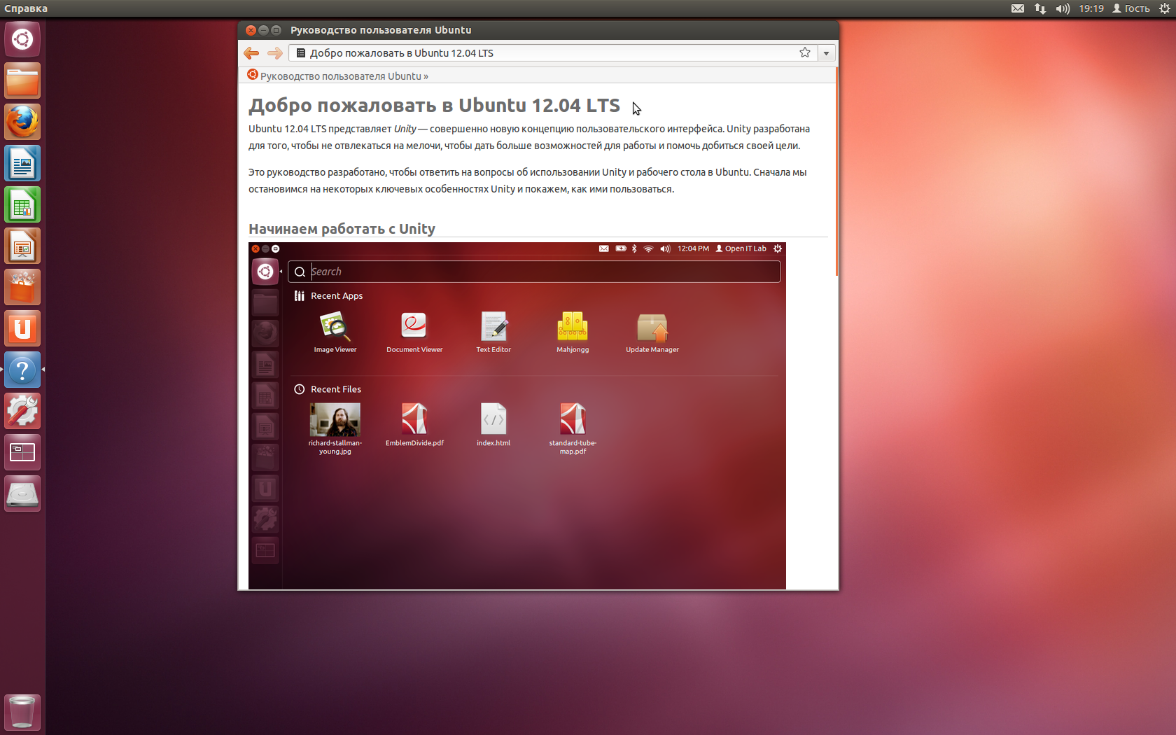 Ubuntu 12.04 LTS "Welcome". In Russian.